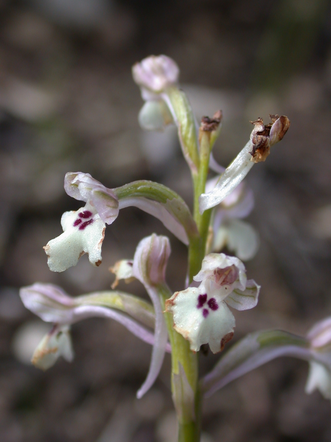 Anacamptis israelitica (H.Baumann & Dafni) R.M.Bateman, Pridgeon & M.W.Chase (סחלב מצויר) at end of bloom, Mount Meron, Upper Galilee, Israel, March 21, 2006. Other names: Orchis israelitica H.Baumann & Dafni; Orchis picta Lois.